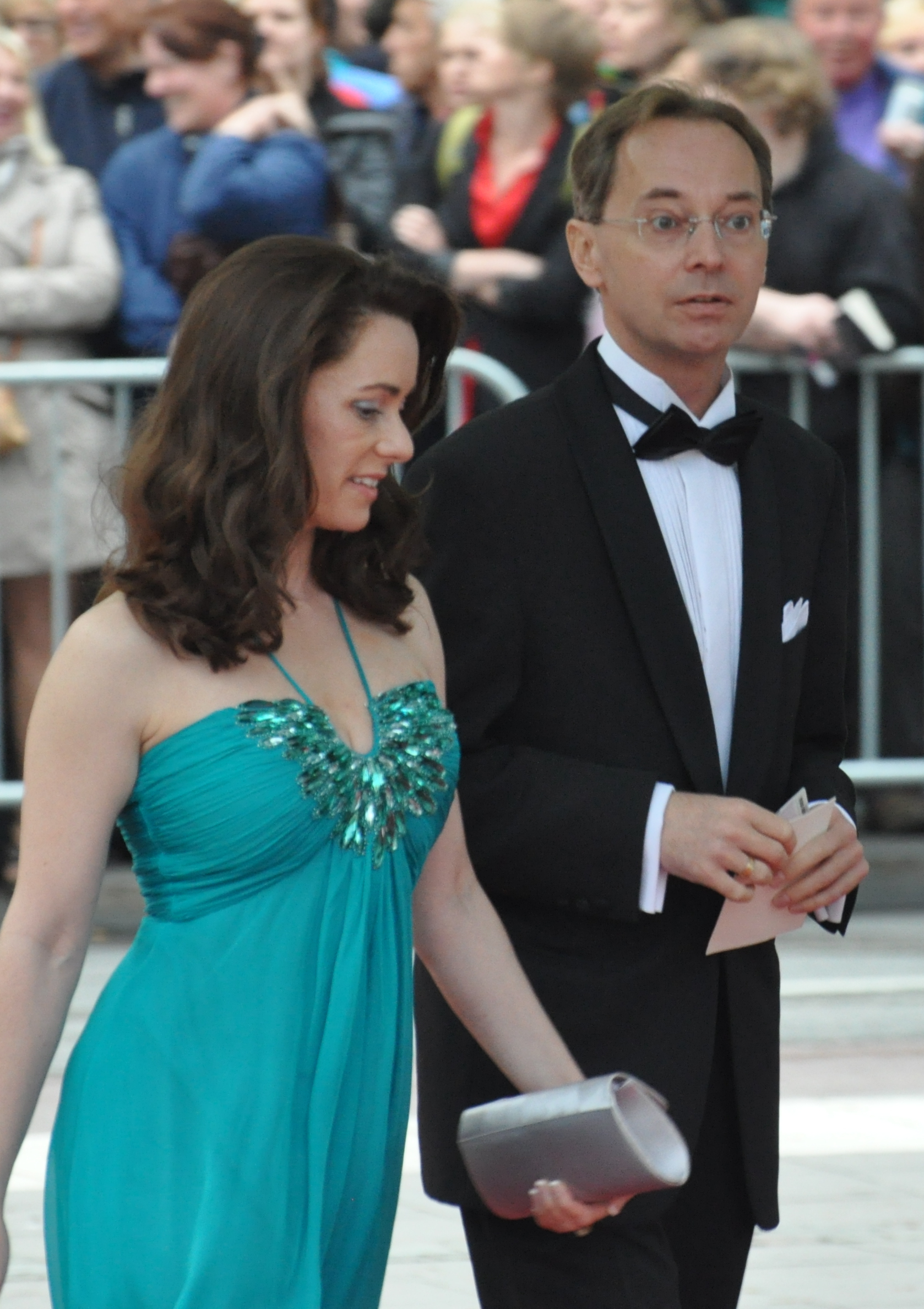 Wedding of Victoria, Crown Princess of Sweden, and Daniel Westling; Arrival of members for the Gouvernment and Swedish and foreign guests of hounour to the Riksdag's Gala Performance at Konserthuset. Anna Nyholm and Gunnar Axén